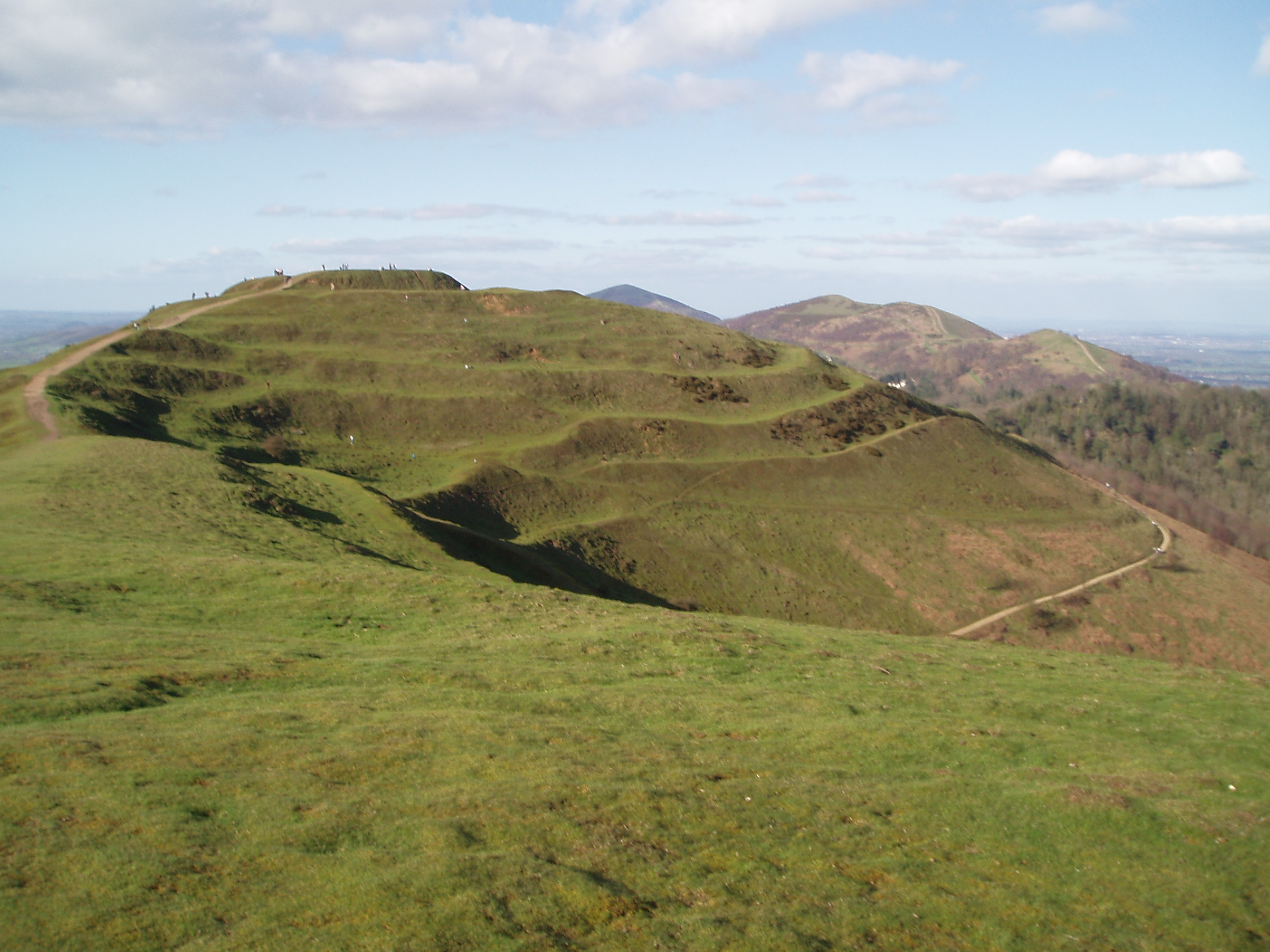 The central mound of the hillfort at British camp, viewed from the south. The layered earthwork defences can be seen clearly. Photo taken in March 2005.